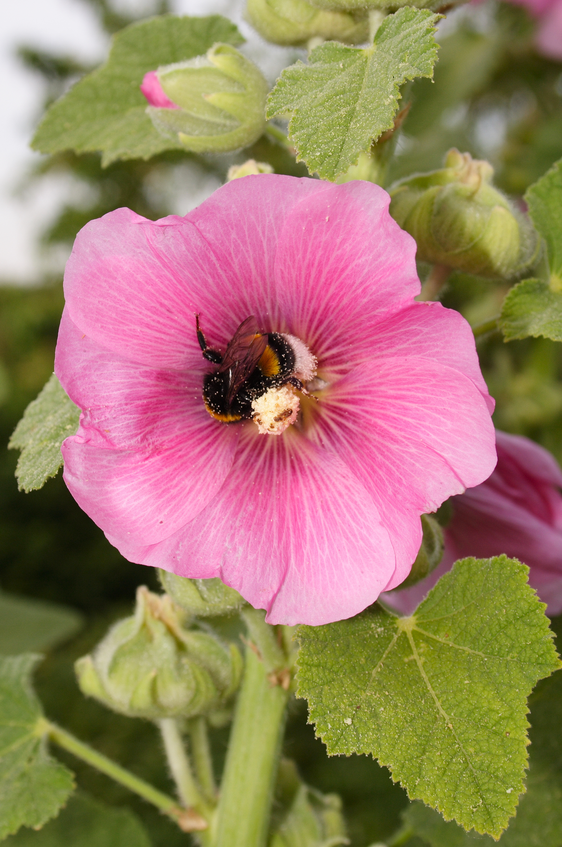 Alcea rosea Added: The insect is a Bumblebee, probable a Bombus terrestris.